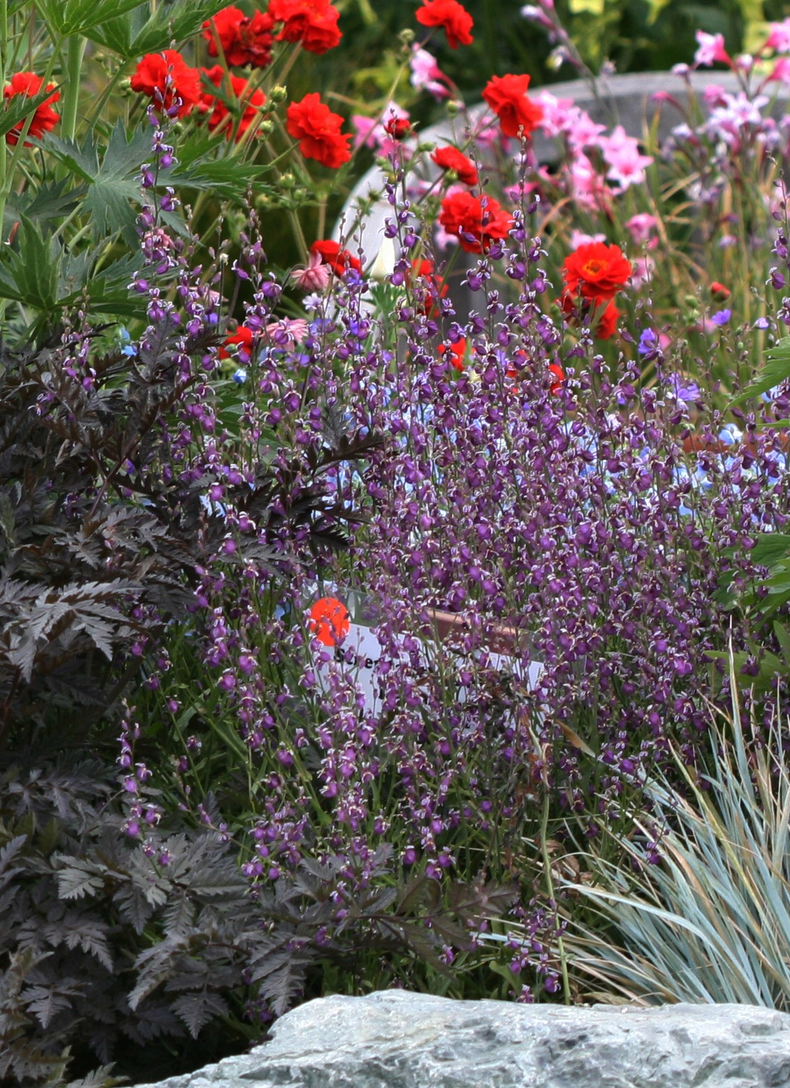 Geum 'Blazing Sunset' , Anthriscus s. 'Raven's Wing' ( Black foliage) and Streptanthus albidus peramoena "Jewel Flower" - California native annual. At Annie's Annuals in Richmond, CA, USA